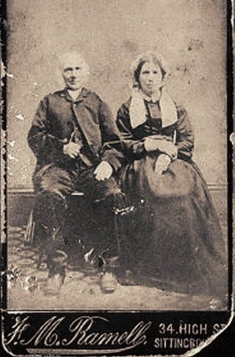 Mid 19th century image of a couple from the United Kingdom. Being used to illustrate 19th century dress styles From [1]